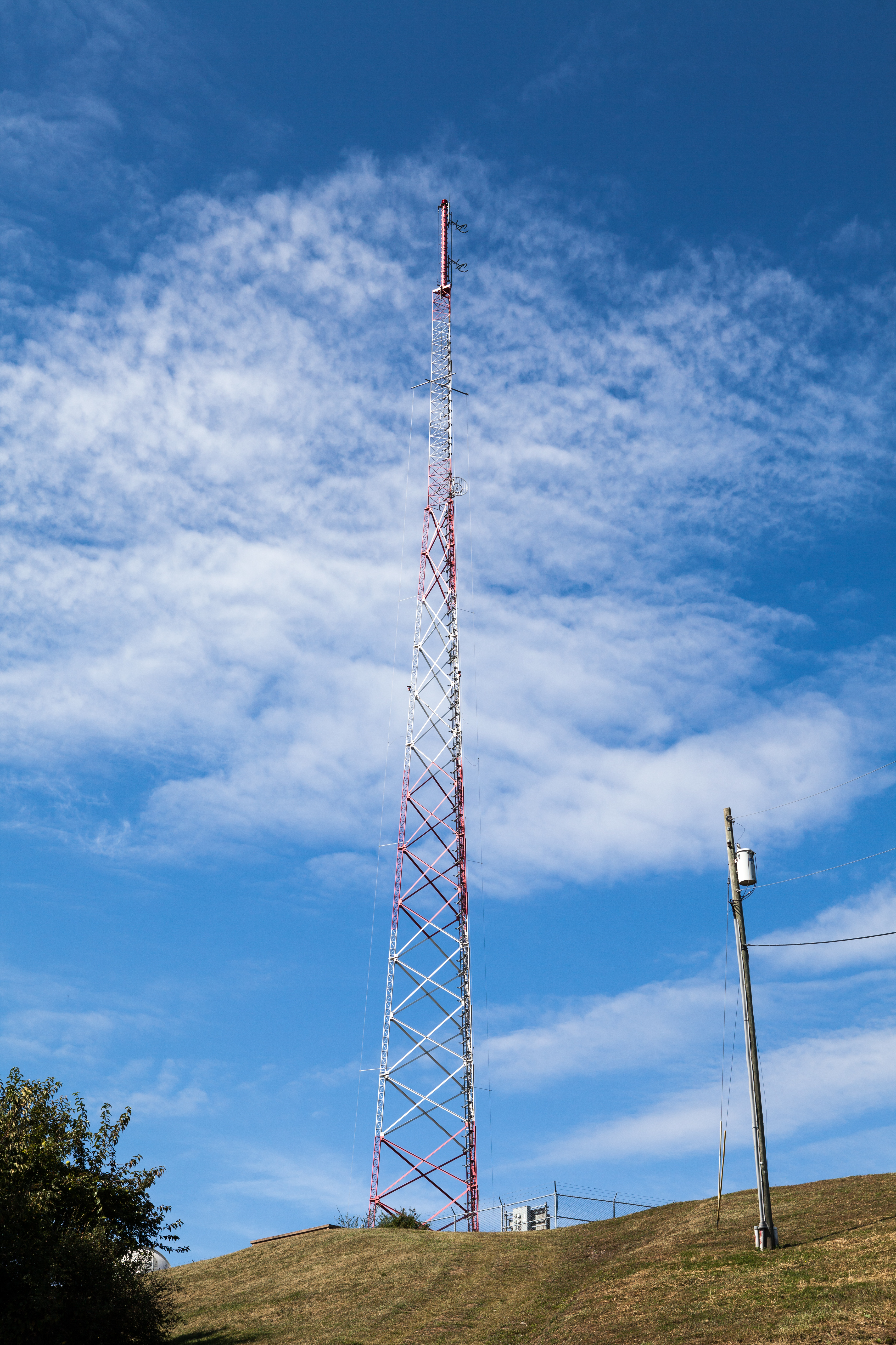 Tower for WRLF (FM) and WTCS (AM) in Fairmont, West Virginia, supporting a two bay circularly polarized FM and a three wire folded unipole AM antenna.